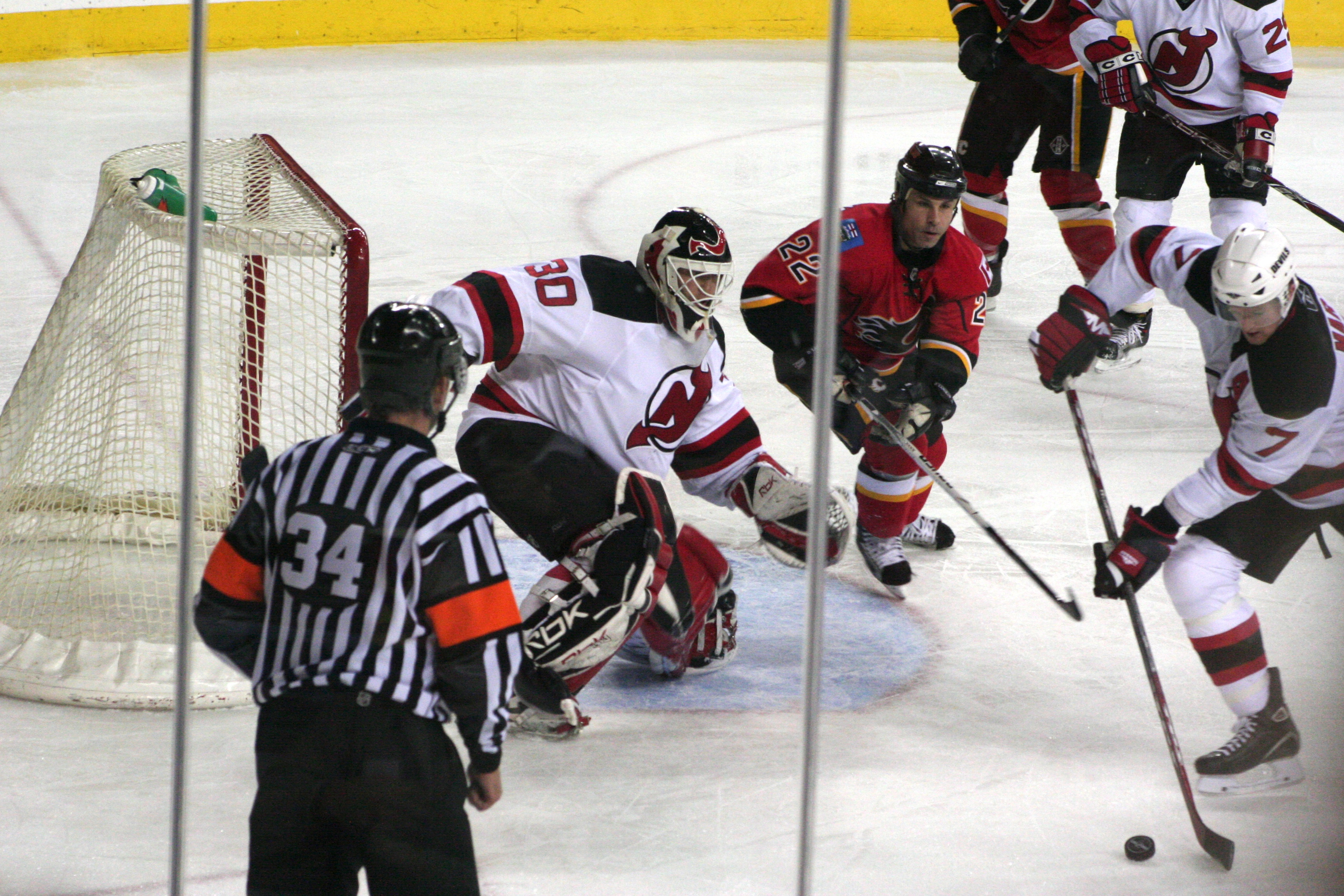 New Jersey Devils goaltender Martin Brodeur in action against the Calgary Flames